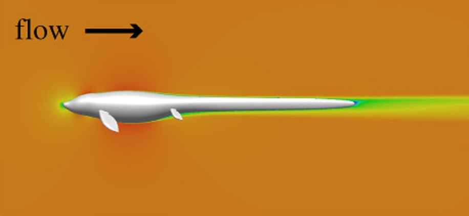 Two-dimensional plot of flow velocity magnitude (Re = 5 x 10^6; inlet velocity of 5 m/s) for Cartorhynchus lenticarpus